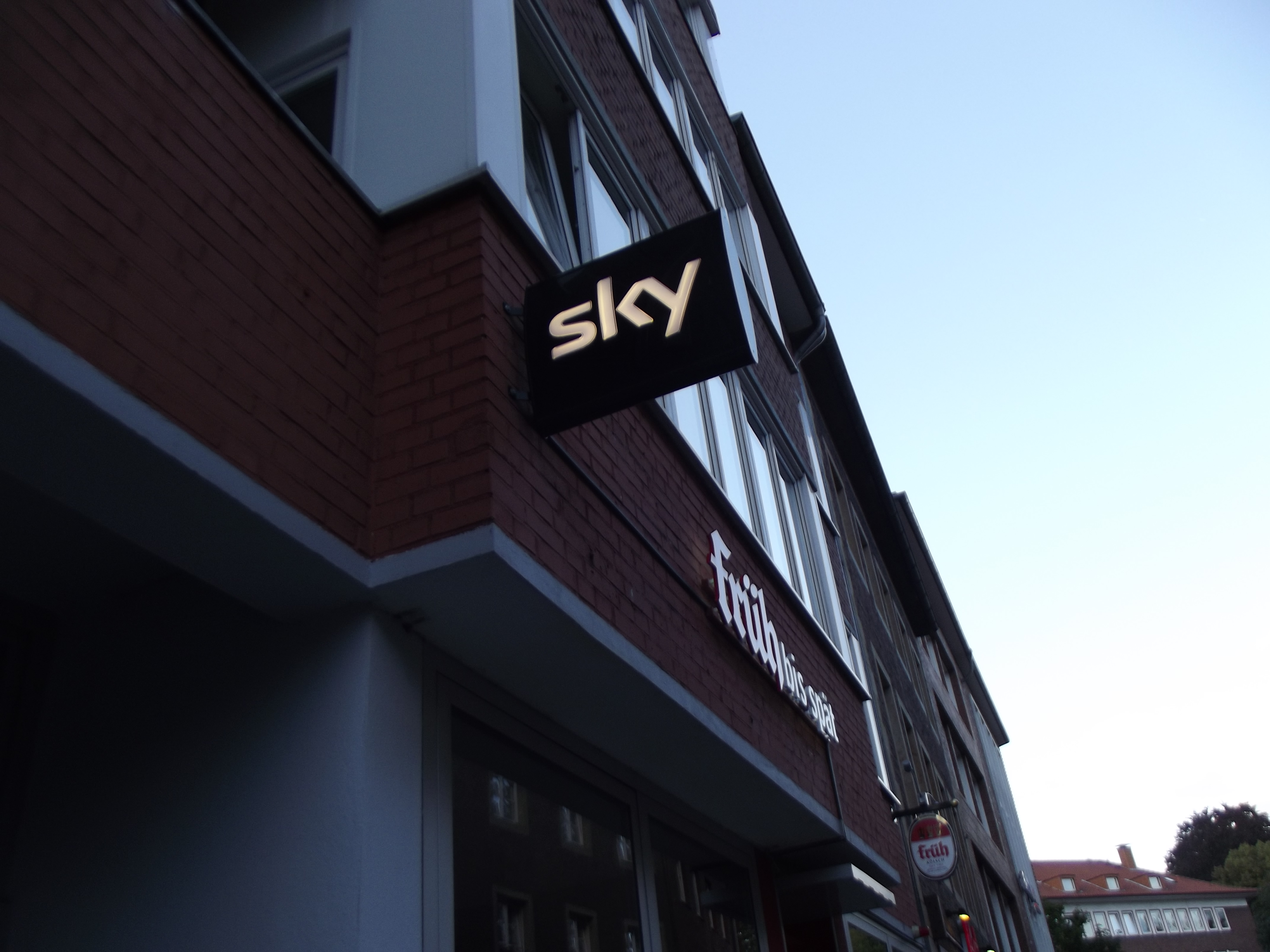 This is a typical sign for German cities. It shows that pubs attract and entertein customers by being trade customers